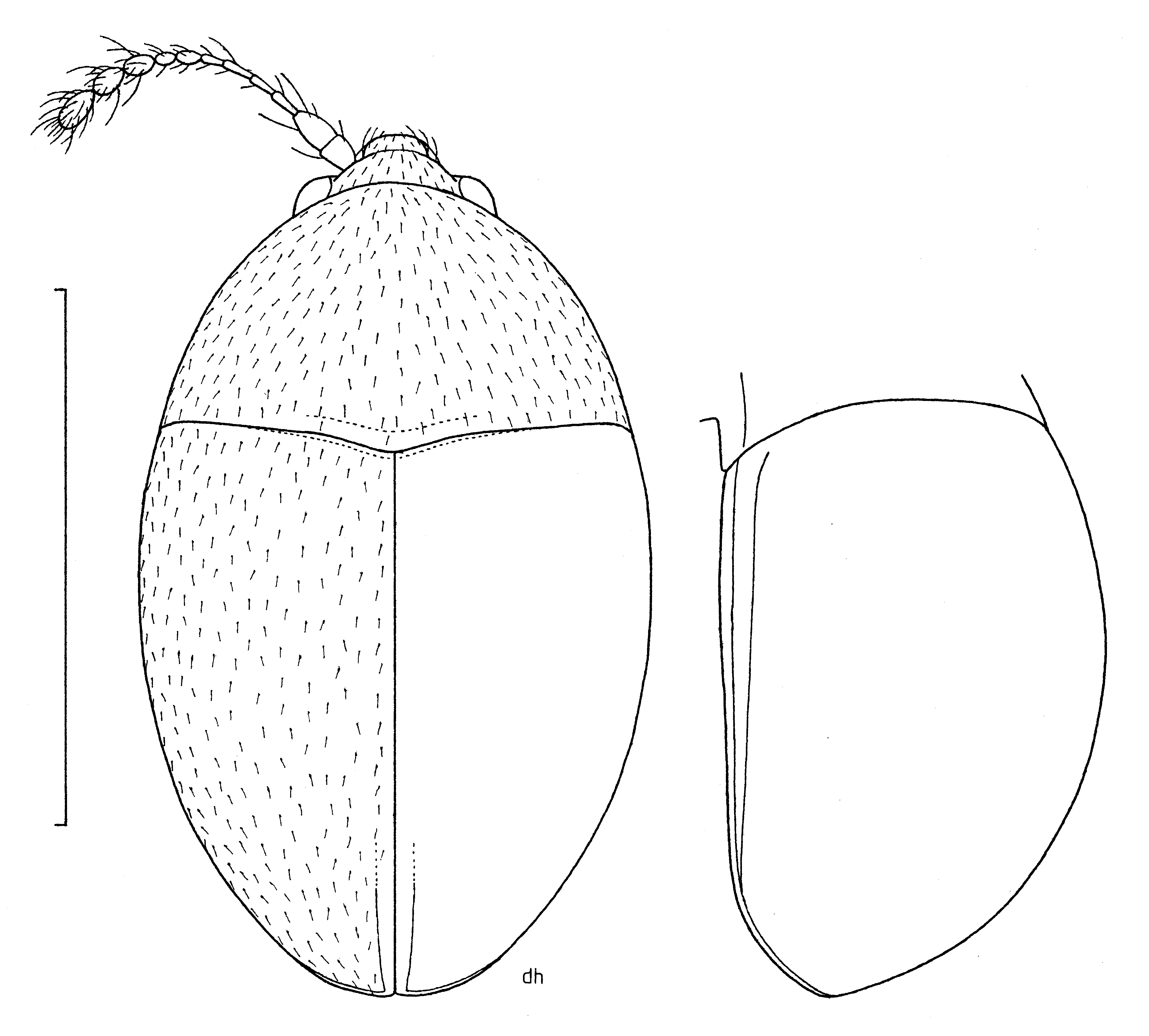 (Coleoptera: Staphylinidae) Baeocera tekootii illustrated by Des Helmore.